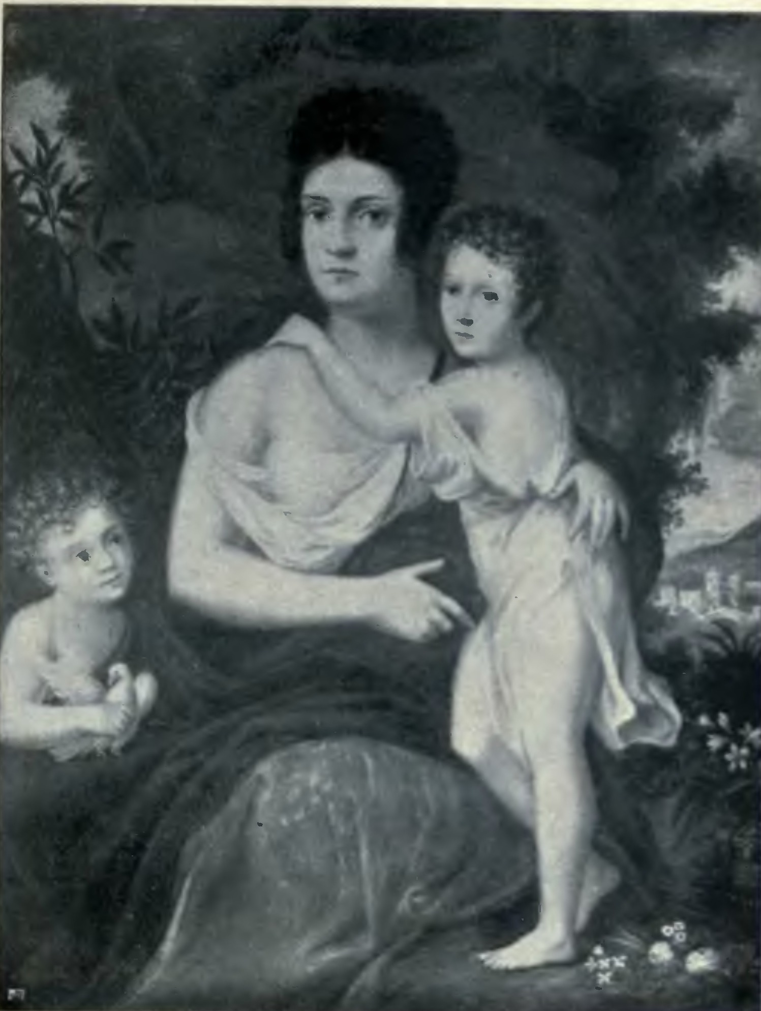 Giuseppe Chiarini: Vita di Giacomo Leopardi. Firenze: G. Barbèra, 1905.